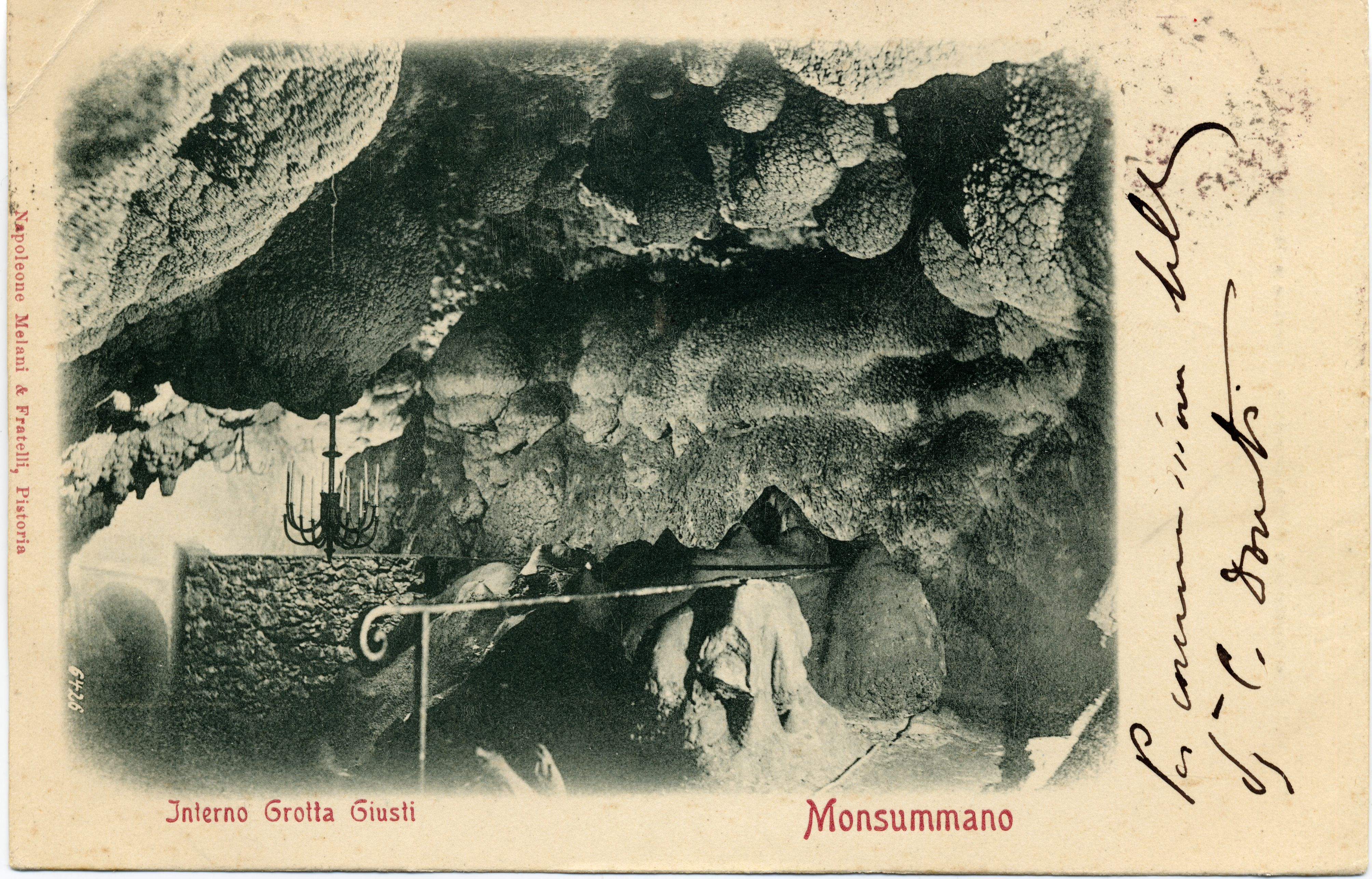 Interno Grotta Giusti, cartolina postale